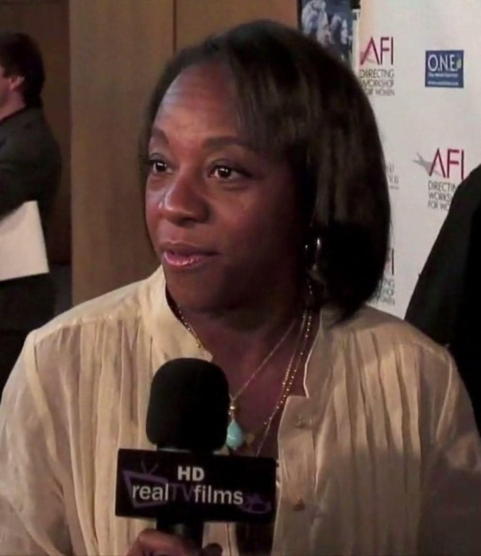 English actress and director Marianne Jean Baptiste interviewed by RealTVfilms.